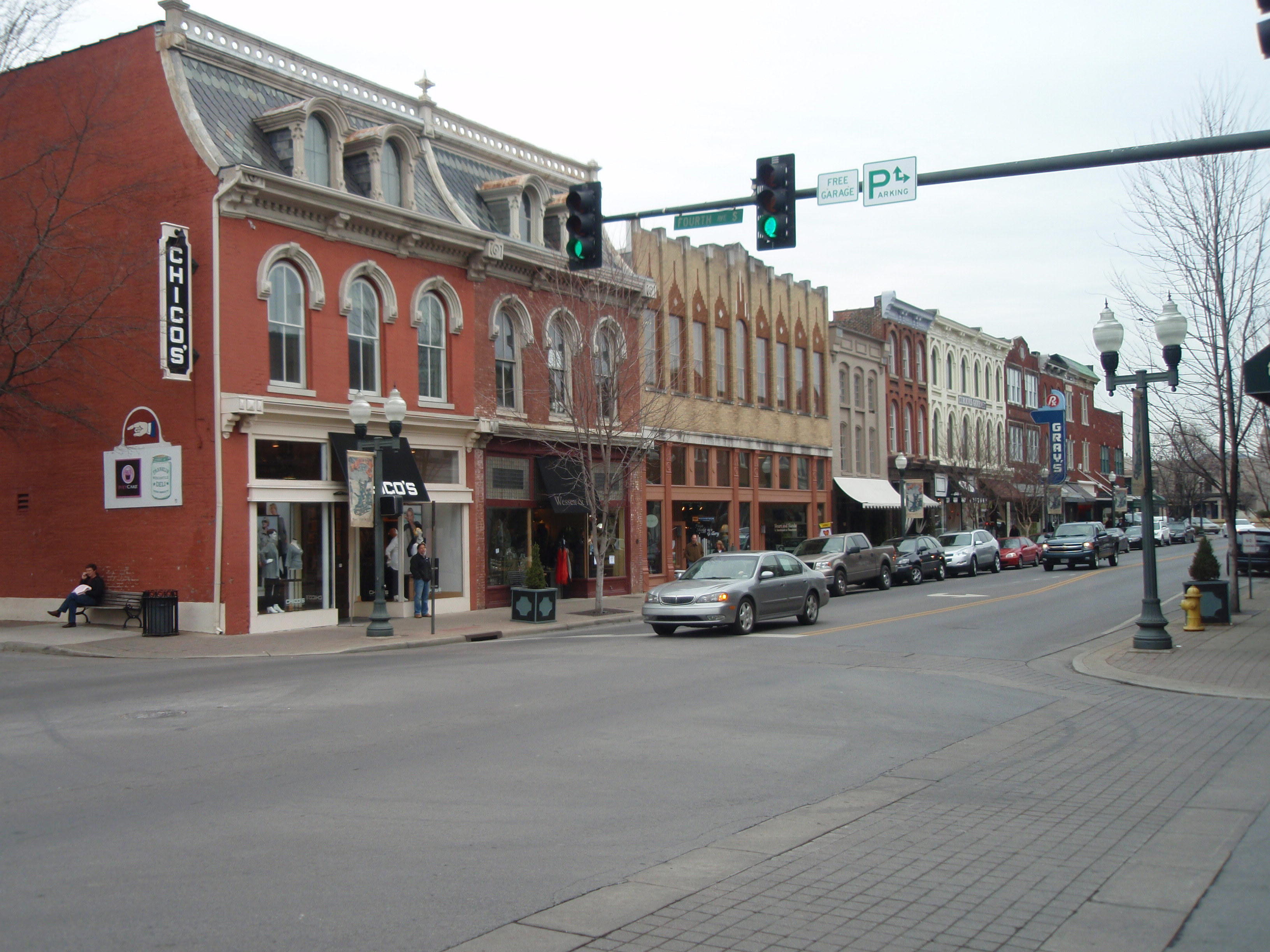 Intersection of 4th Avenue and Main Street in Franklin, Tennessee